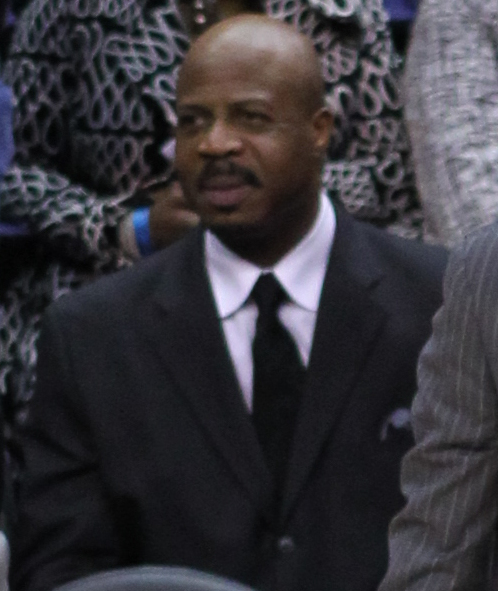 Lakers at Wizards March 7, 2012